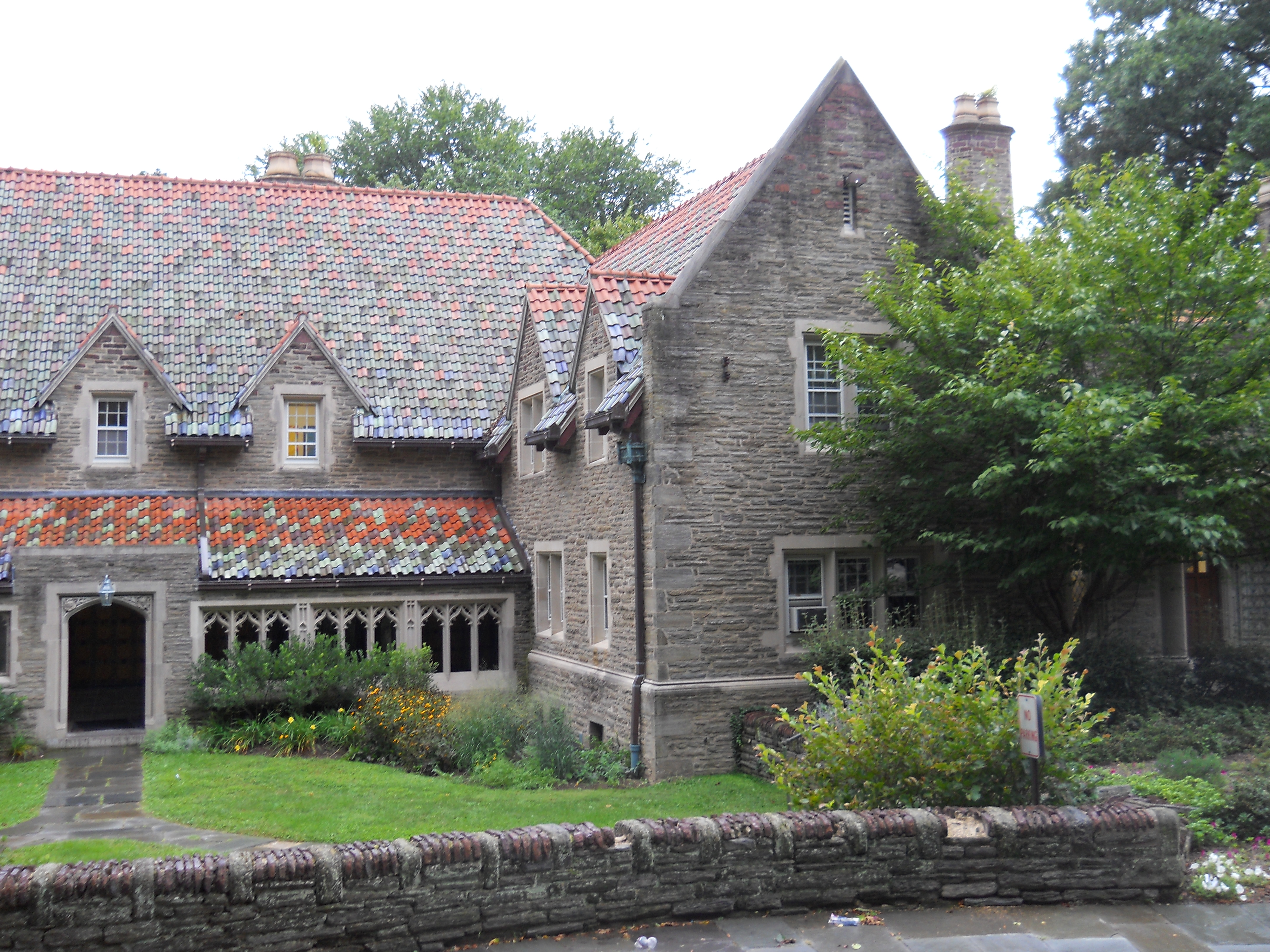 Carson College for Orphan Girls Carson Valley School, Mother Goose Cottage (1917-1920), central part.